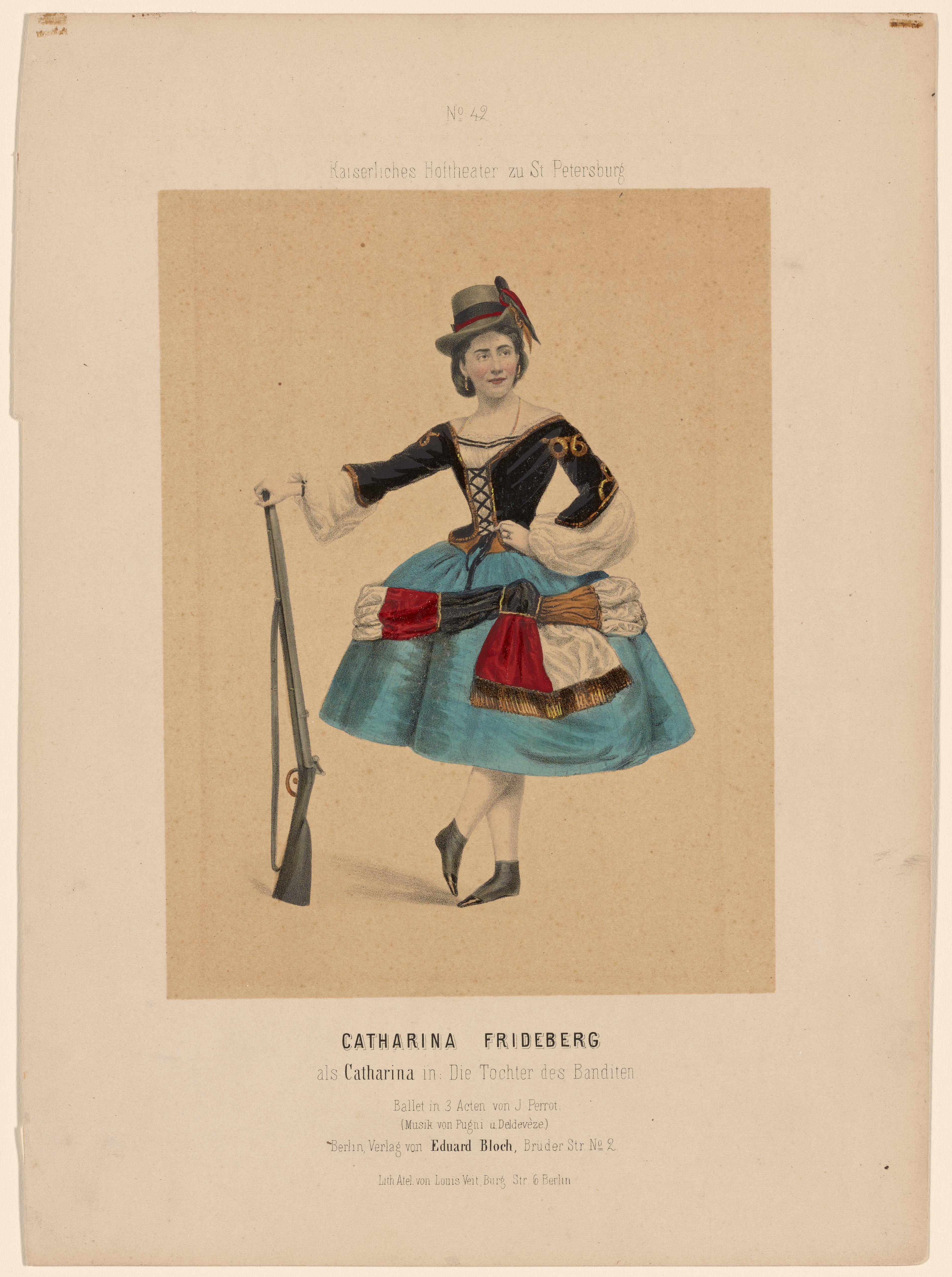 Fridberg full length to front, looking right, weight on right foot, her left foot crossed in front. Her left hand is on her hip, her right hand is resting on a musket.